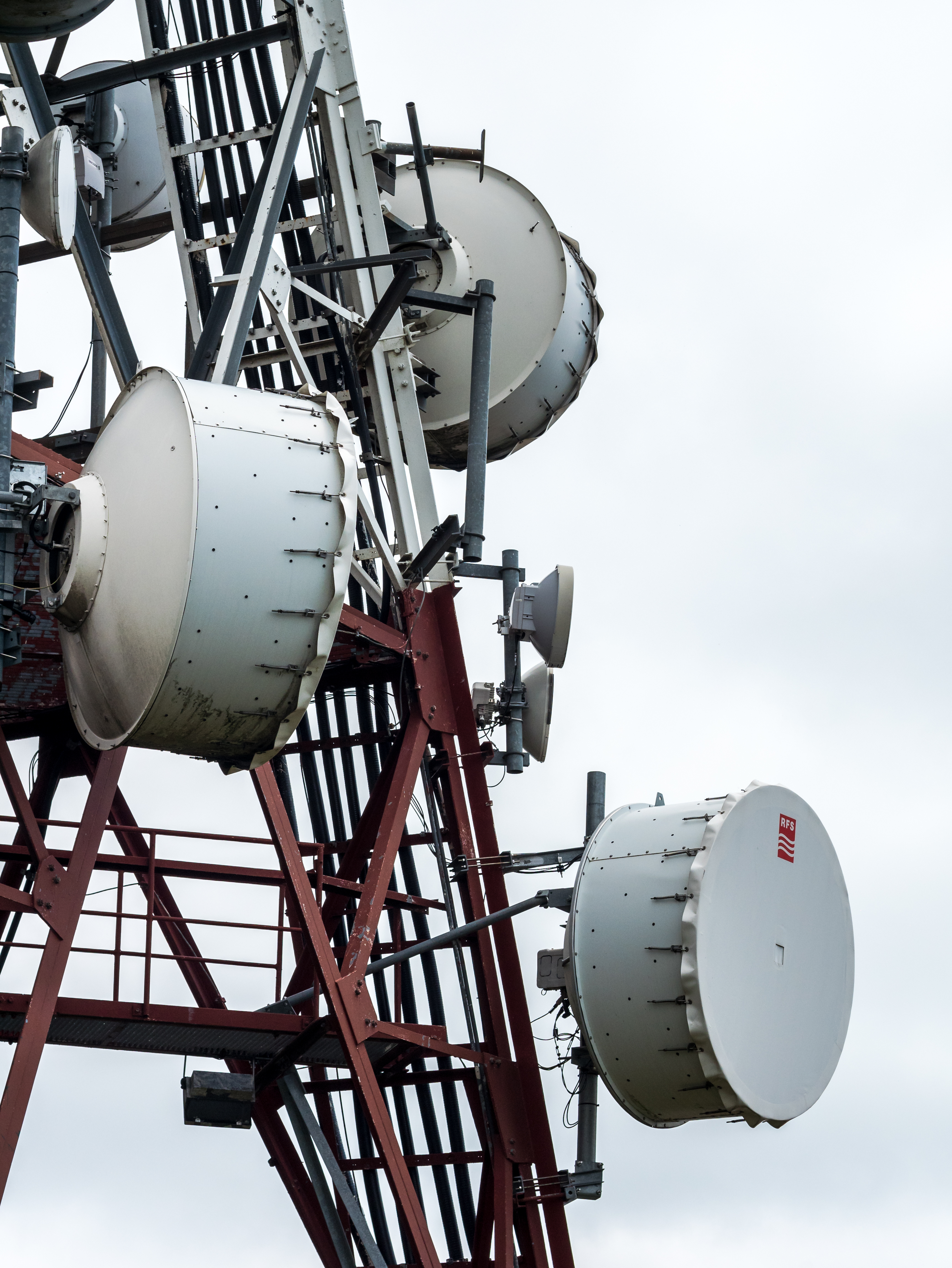 Telecommunication antennas on the summit of Zaldiaran. Álava, Basque Country, Spain